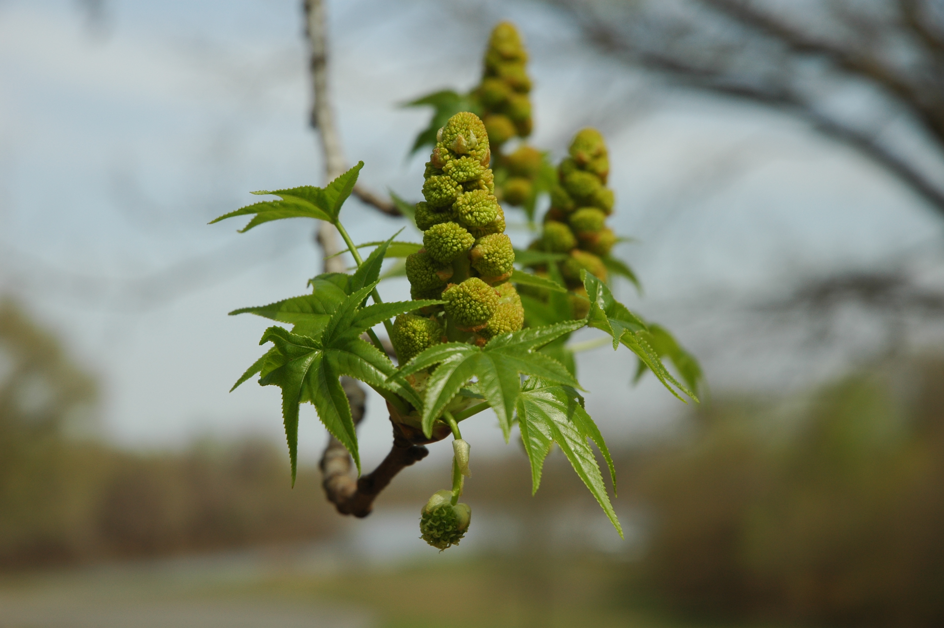 Liquidambar styraciflua — American sweetgum; flower. At Clear Creek Park in Crawford County, Arkansas.